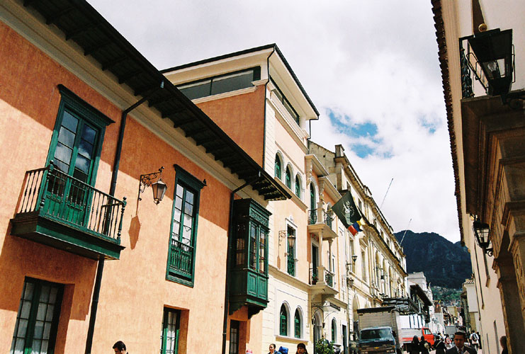 Street in Bogotá